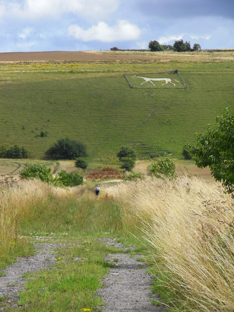 Green Drove, Pewsey One of several parallel droves that head between the flat arable land to the scarp of Pewsey Hill. This one heads more or less straight towards the White Horse.